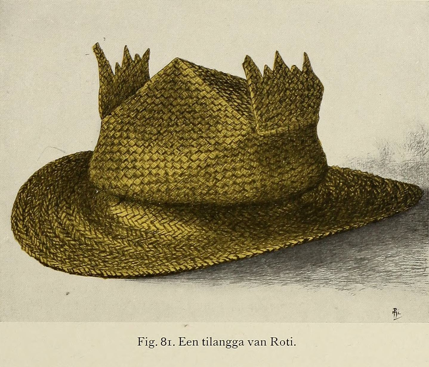 [Detail] De inlandsche kunstnijverheid in Nederlandsch Indië (1912) In the Mary Ann Beinecke Decorative Art Collection. Sterling and Francine Clark Art Institute Library.